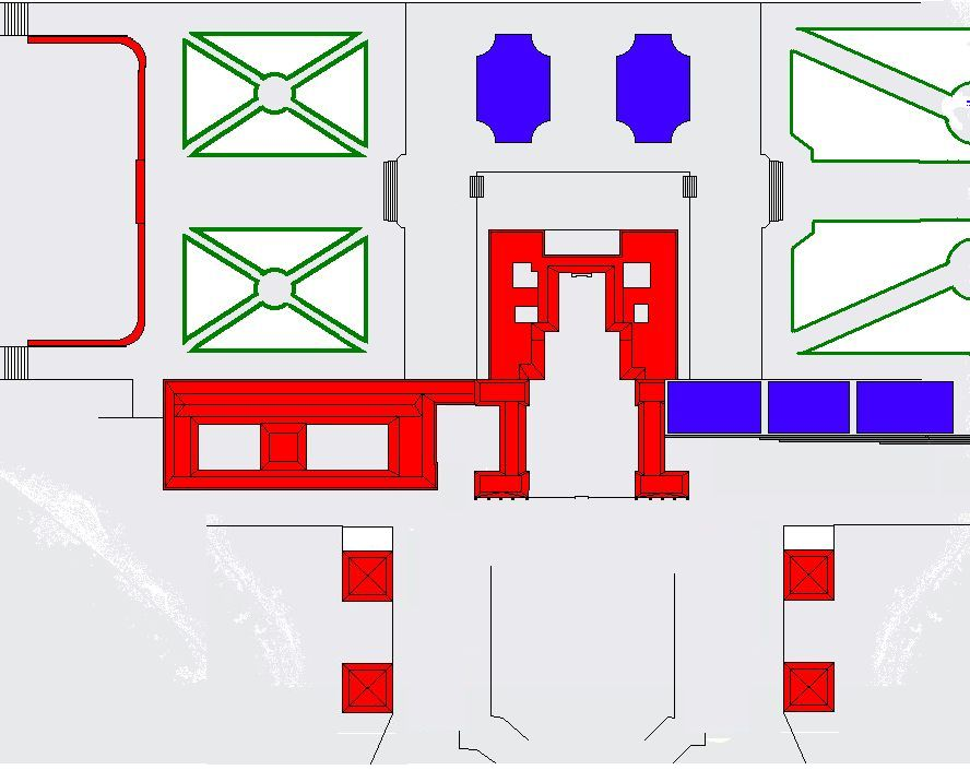 Versailles in the late 1670ies. No northwing, ministerial wing or menus